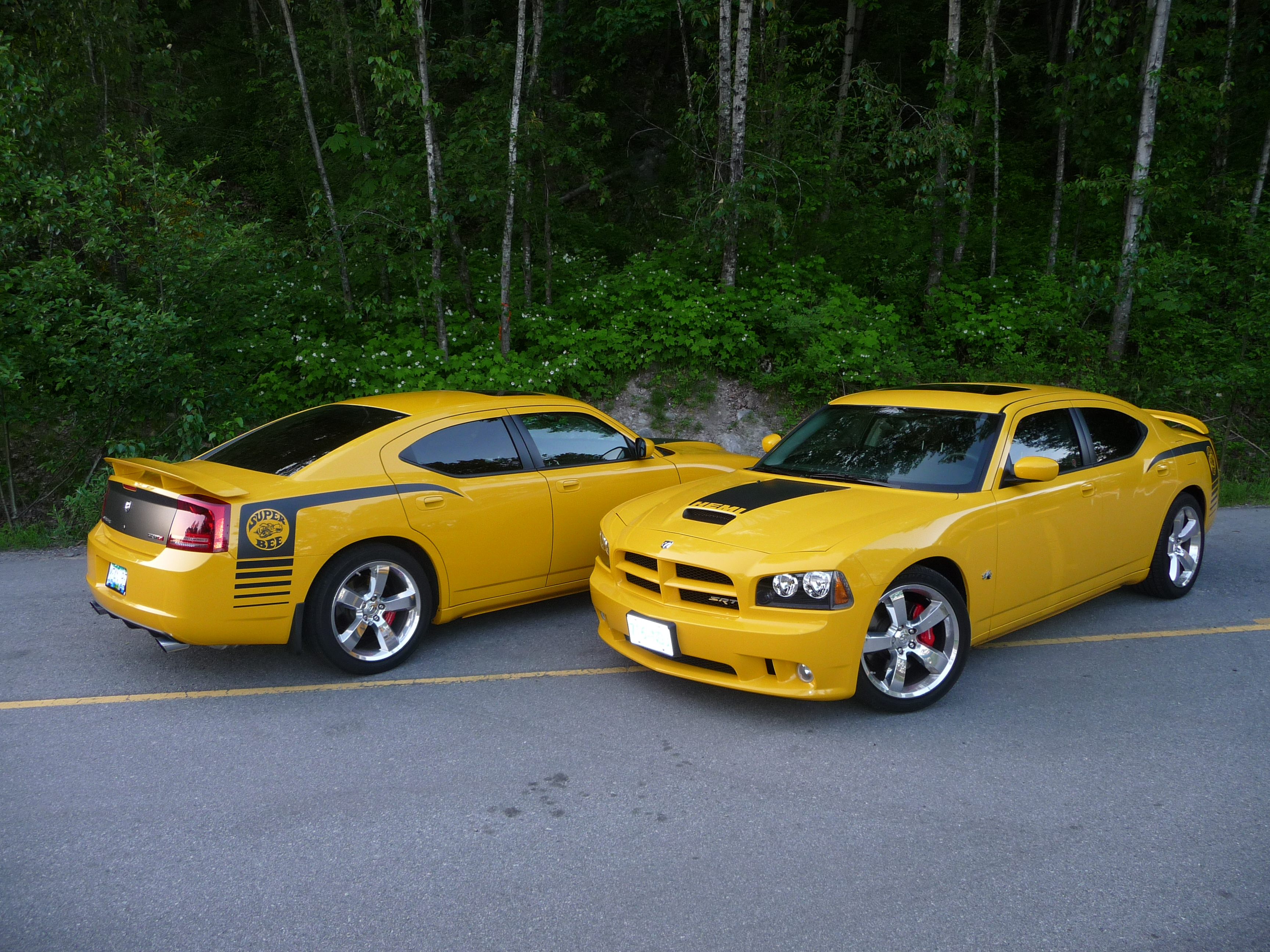 Photograph of SuperBee number 0004 of 1000 and 0427 of 1000